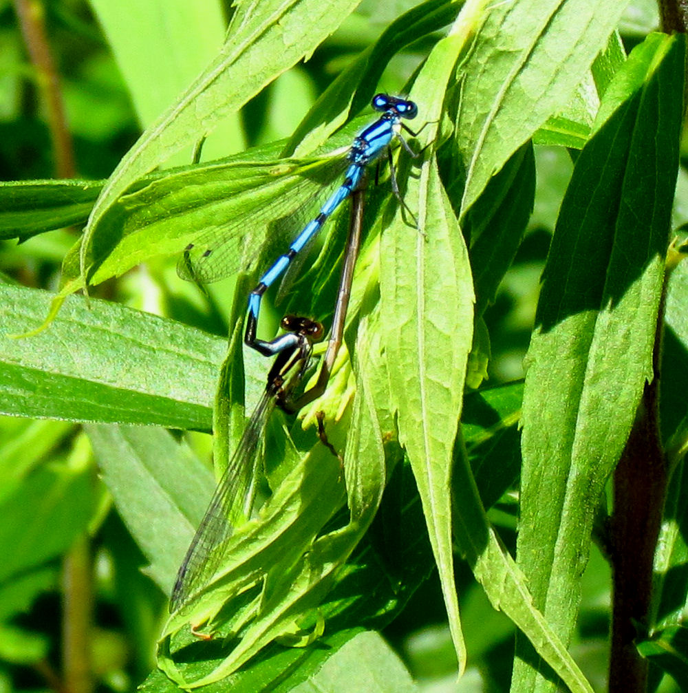 Marsh Bluets (Enallagma ebrium) in wheel position, Mer Bleue Conservation Area, Ottawa, Ontario, Canada